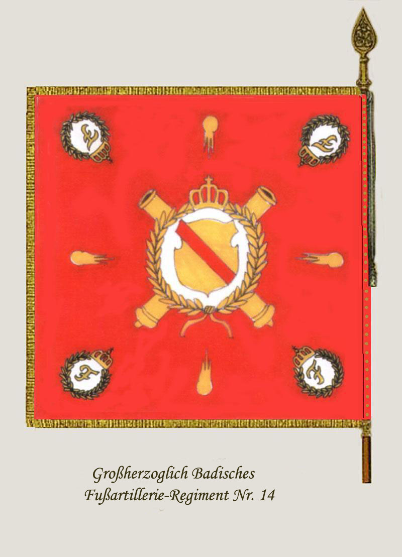 Colours of the Baden Foot Artillery Regiment (14th of Foot Artillery in the Prussian Army), with the coat of arms of the grand duchy of Baden. Garrison was Strasbourg